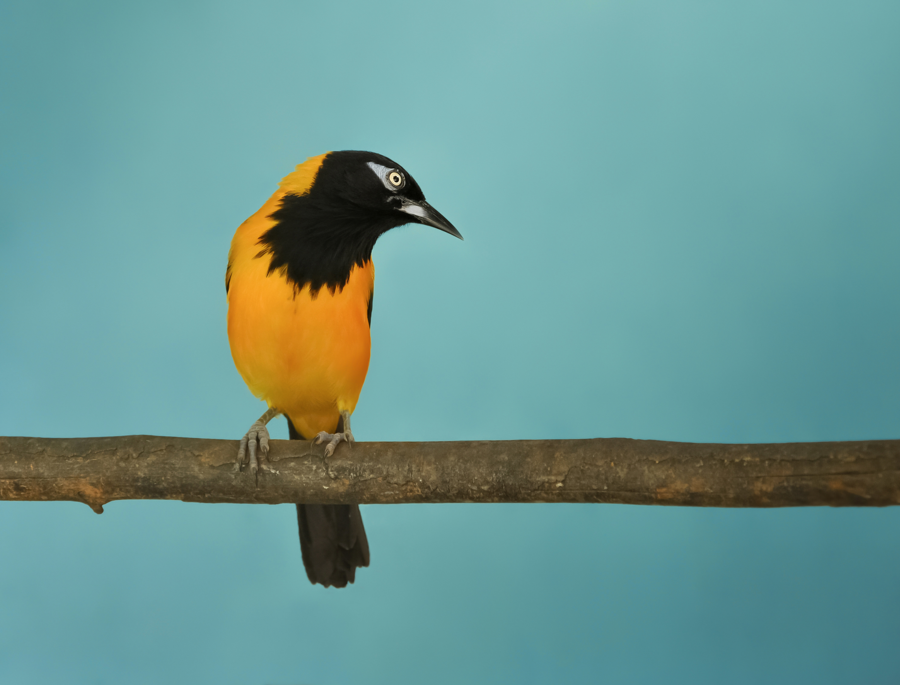 Venezuelan troupial Icterus icterus at Parque del Este, in Venezuela.